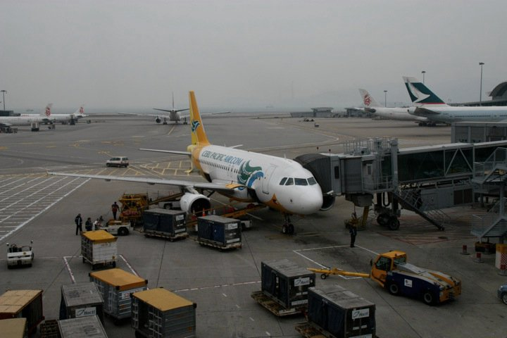 A Cebu Pacific Airbus A320 at the Hong Kong International Airport. Photo of a Cebu Pacific Airbus A320-200 at the Hong Kong International Airport.